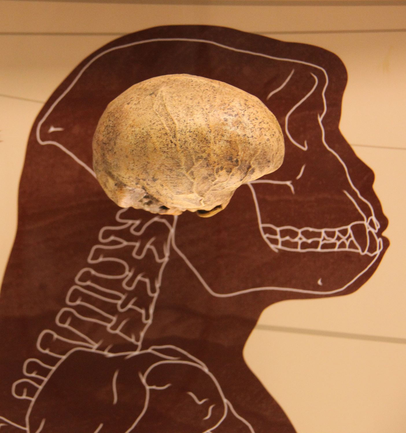 An endocast of the Sahelanthropus tchadensis brain on display in the Hall of Human Origins in the Smithsonian Museum of Natural History in Washington, D.C. An endocast is where scientists fill the inside of a skull, and make a model of the brain. The brain and its blood vessels leave imprints on the inside of the skull. Because more advanced brains have smaller veins and many more folds and lobes, an endocast is very useful in determing how intelligent a human ancestor might have been, and what portions of its brain were more developed. Sahelanthropus tchadensis lived about 7 million years ago. Sahelanthropus tchadensis was discovered in the Djurab desert of Chad by a Frenchman and three Chadians in July 2001. Its brain is only about 320 to 380 cubic centimeters in volume, about that of a modern chimpanzee.